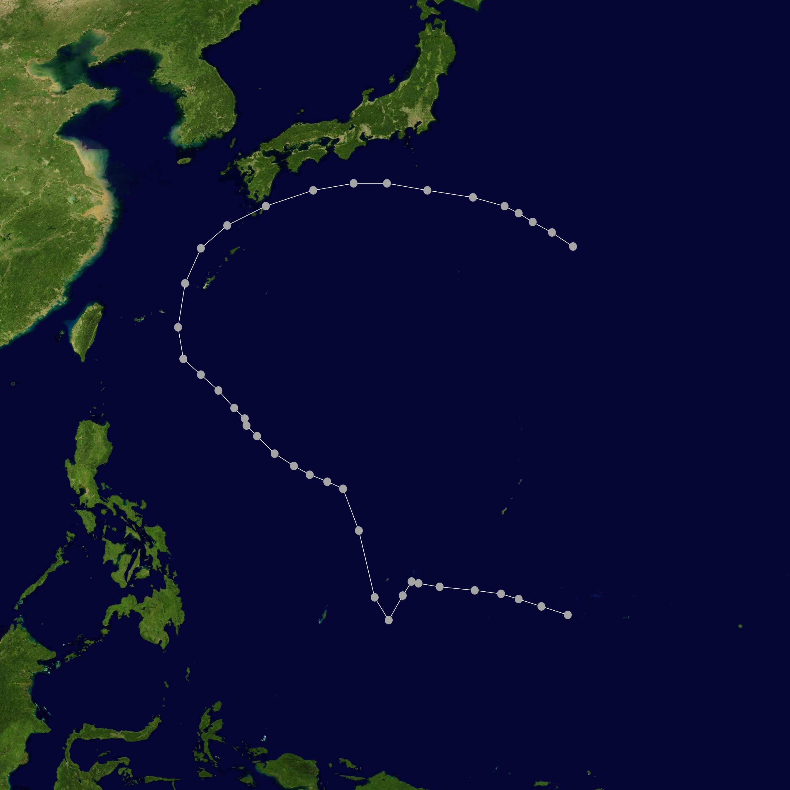 Track of 19-W from October 9, 1939 through October 19, 1939. Due to the age at witch this storm was observed from, one cannot rely on this track to be 100% accurate, but rather just a reference as to where the storm happened and the relative direction it traveled.